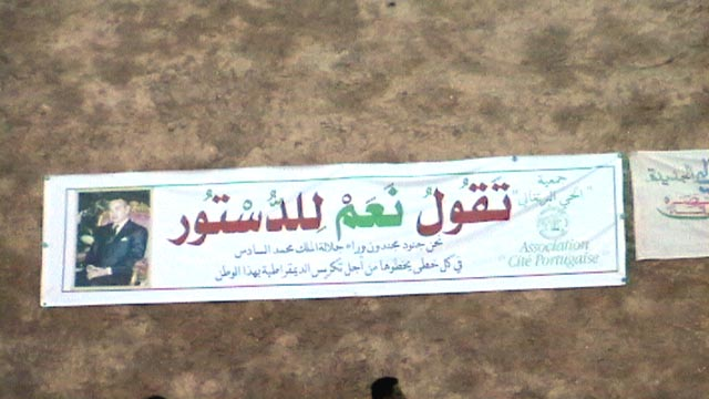 placard for "yes" in Moroccan referendum on constitution change of 1st of July 2011 (decided as a reaction to protests of Arab spring), still present on July 3 (it should have been removed on 30 of June). The "yes" is associated with picture of King Mohammed VI who announced he would vote for the new constitution. The add is supported by inhabitants of old portuguese district of El Jadida Walon: afitche po dire "oyi" å referindom sol nouve mwaisse lwè do 1î d' djulete 2011 (k' åreut dvou esse rissaetcheye li 30 di djun) avou l' portrait do rwè Mohammed VI k' aveut dit k' i vôtreut po.